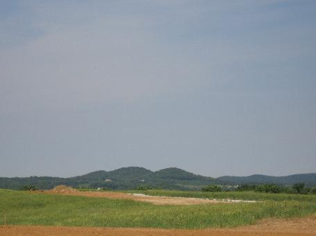 Photo taken by Matt on May 23, 2006. Approximately 50 miles north northwest of downtown St. Louis.